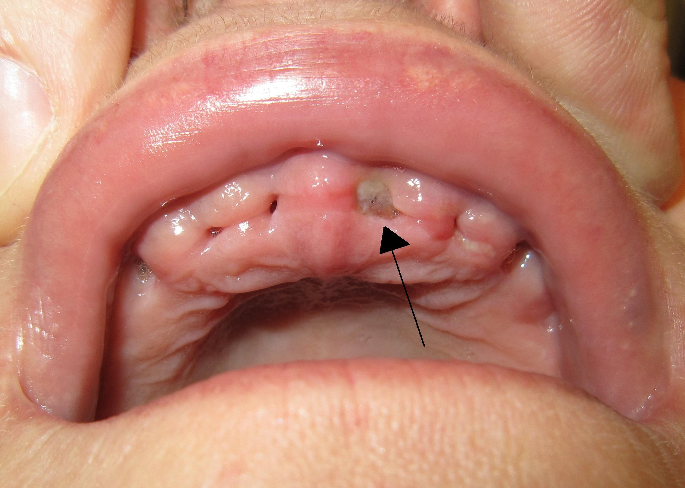 Dry sockets post dental extraction in a person who smokes.